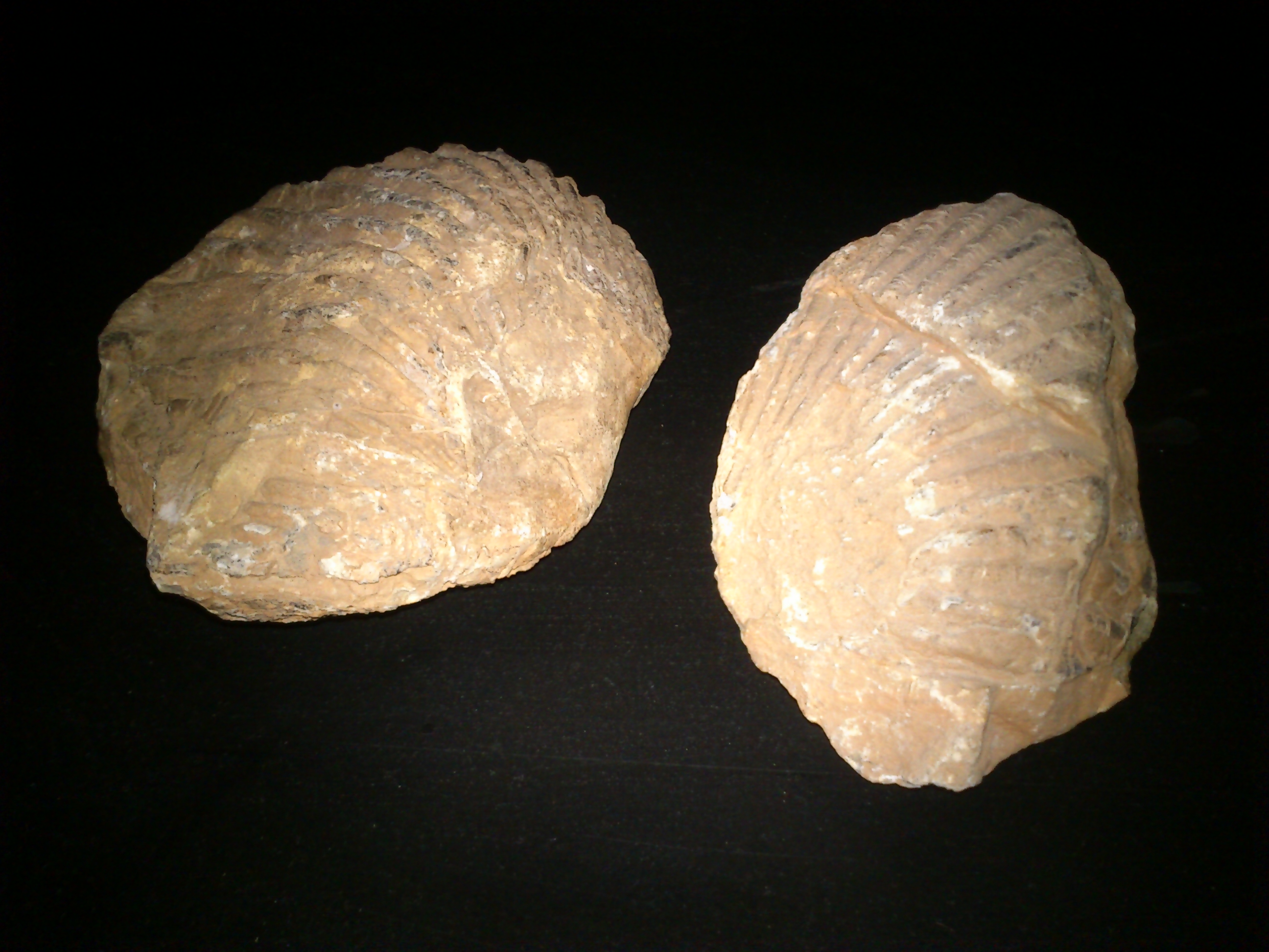 stone